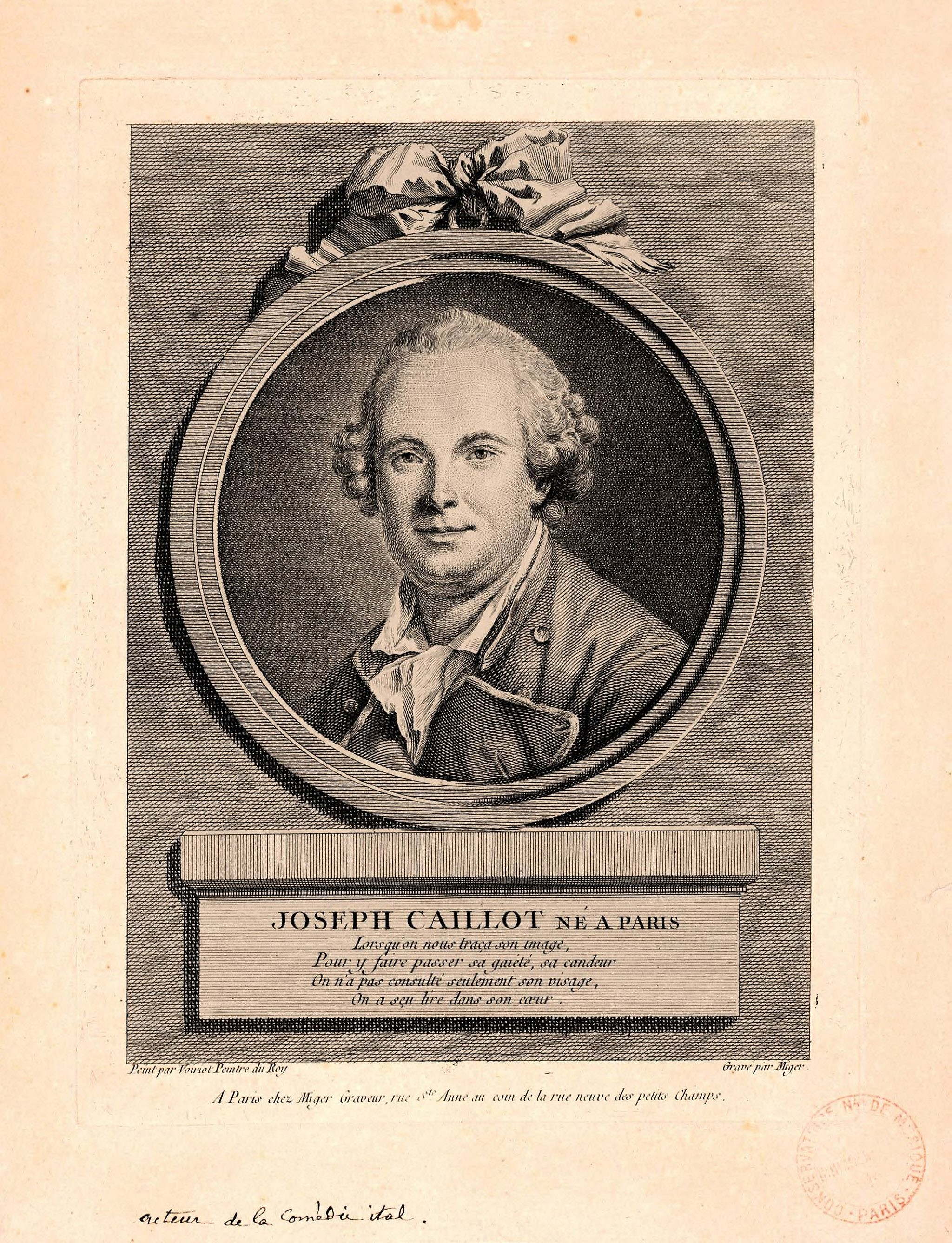 Portrait of Joseph Caillot (1733-1816), French actor